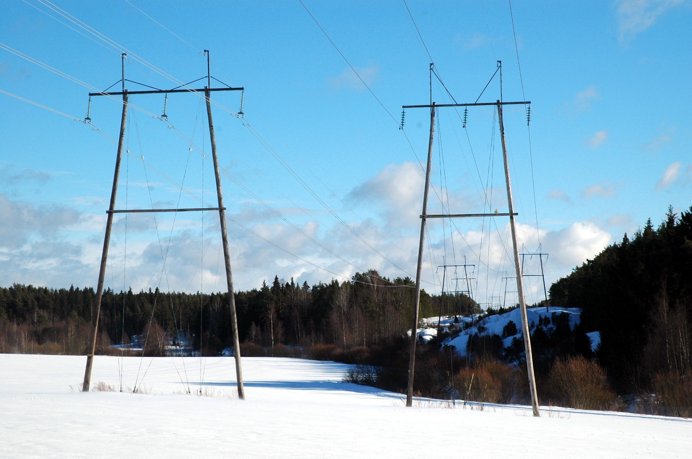 110 kV power line in Finnland with wooden prop